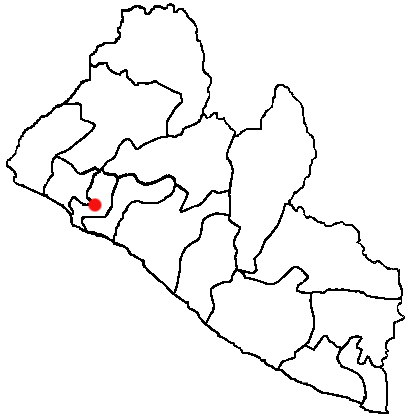 Bensonville, Liberia Location Map; created with the GIMP. Made by User:Acntx.